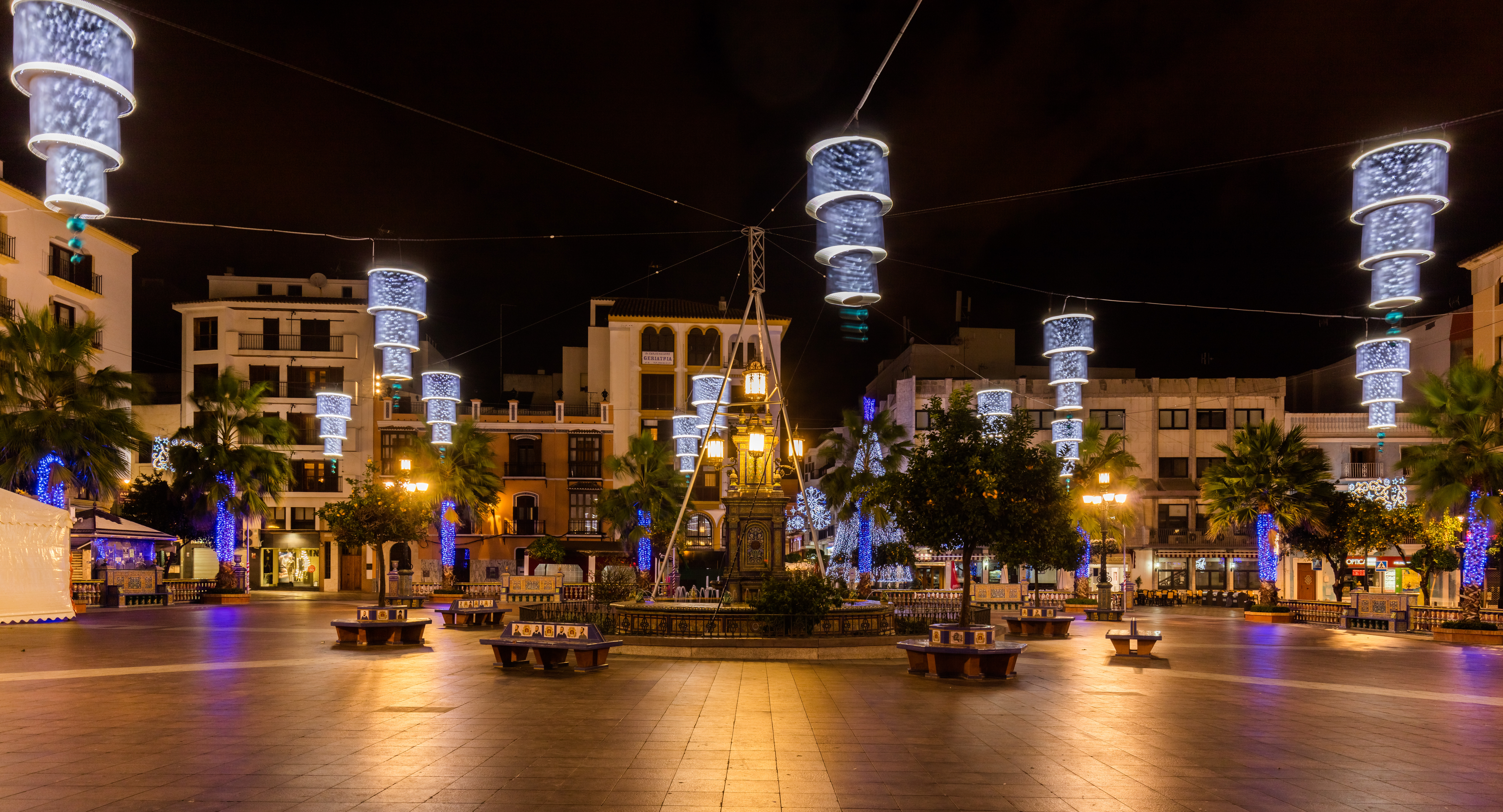 Plaza Alta, Algeciras, Cádiz, Spain